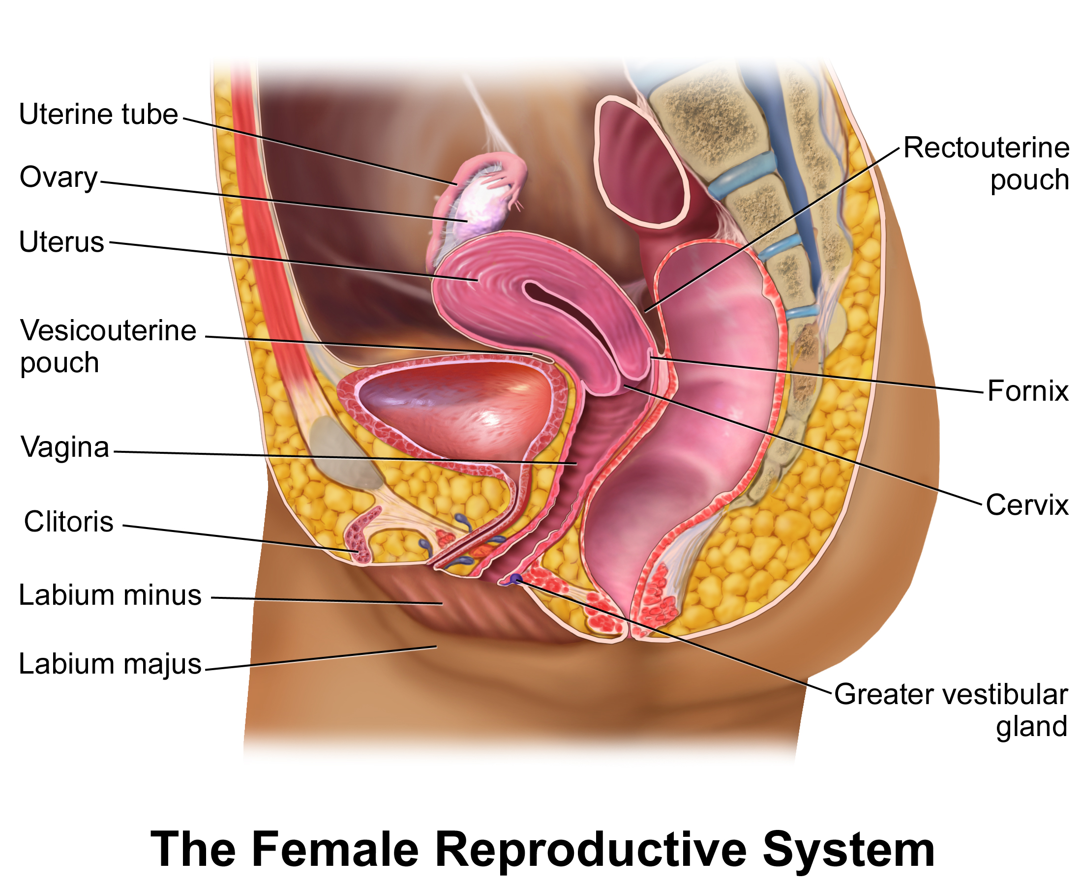 Female Reproductive System (Sectional view). See a full animation of this medical topic.